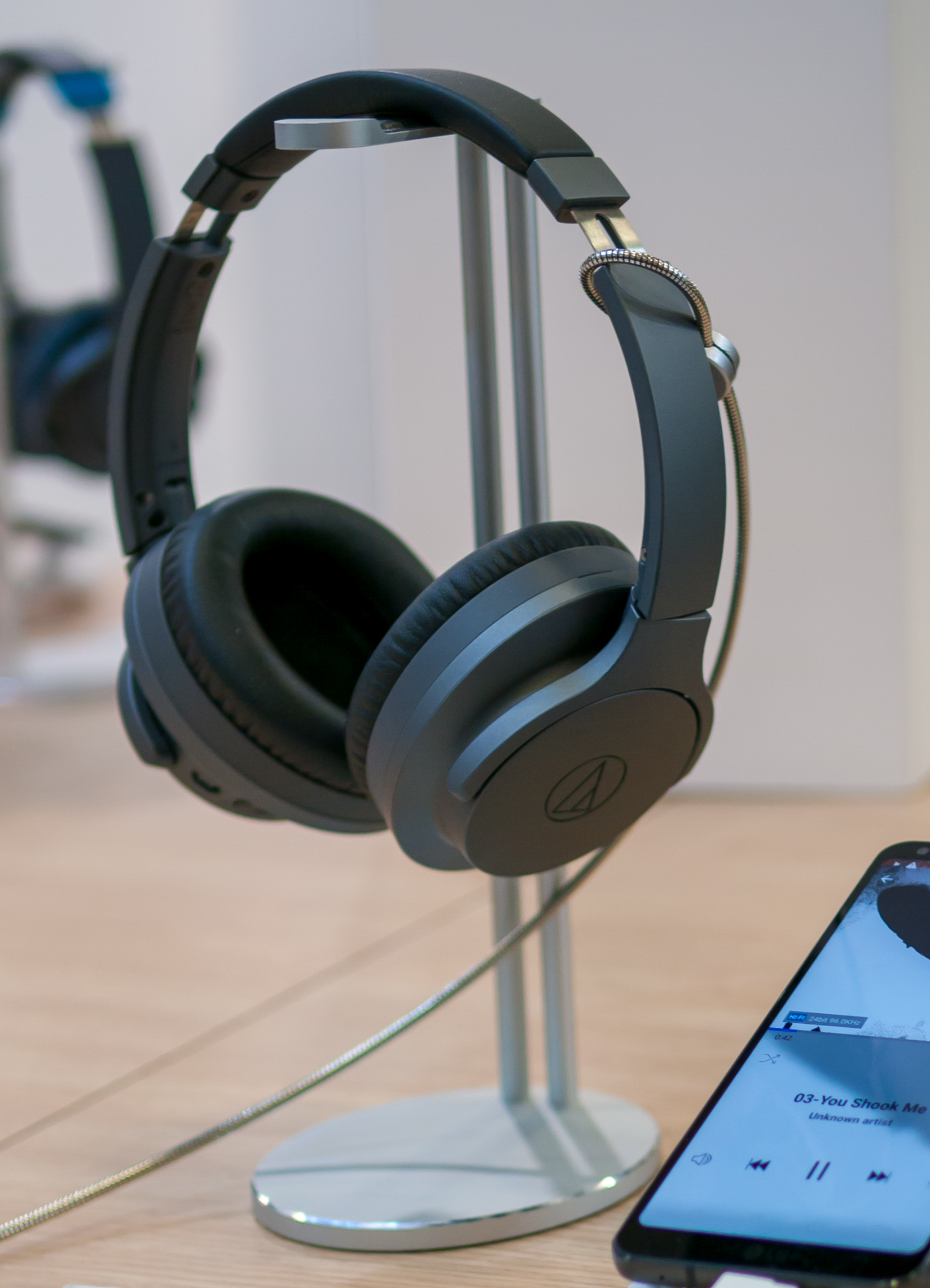 Audio-Technica, Internationale Funkausstellung 2018, Berlin